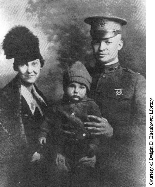 President Dwight D. Eisenhower with his wife Mamie and infant son Icky.